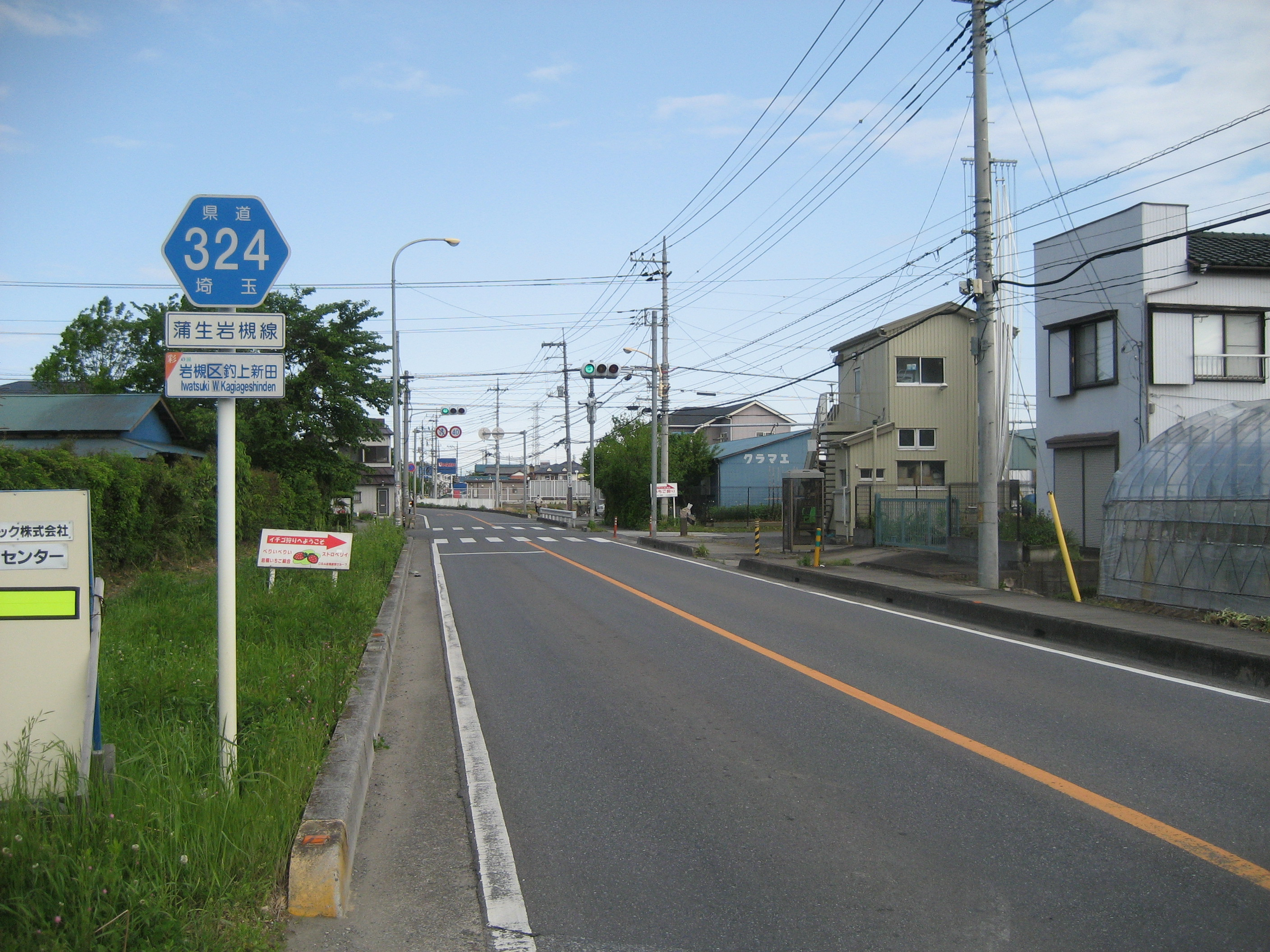 The Saitama Prefectural Road Route 324 in Iwatsuki-ku, Saitama City